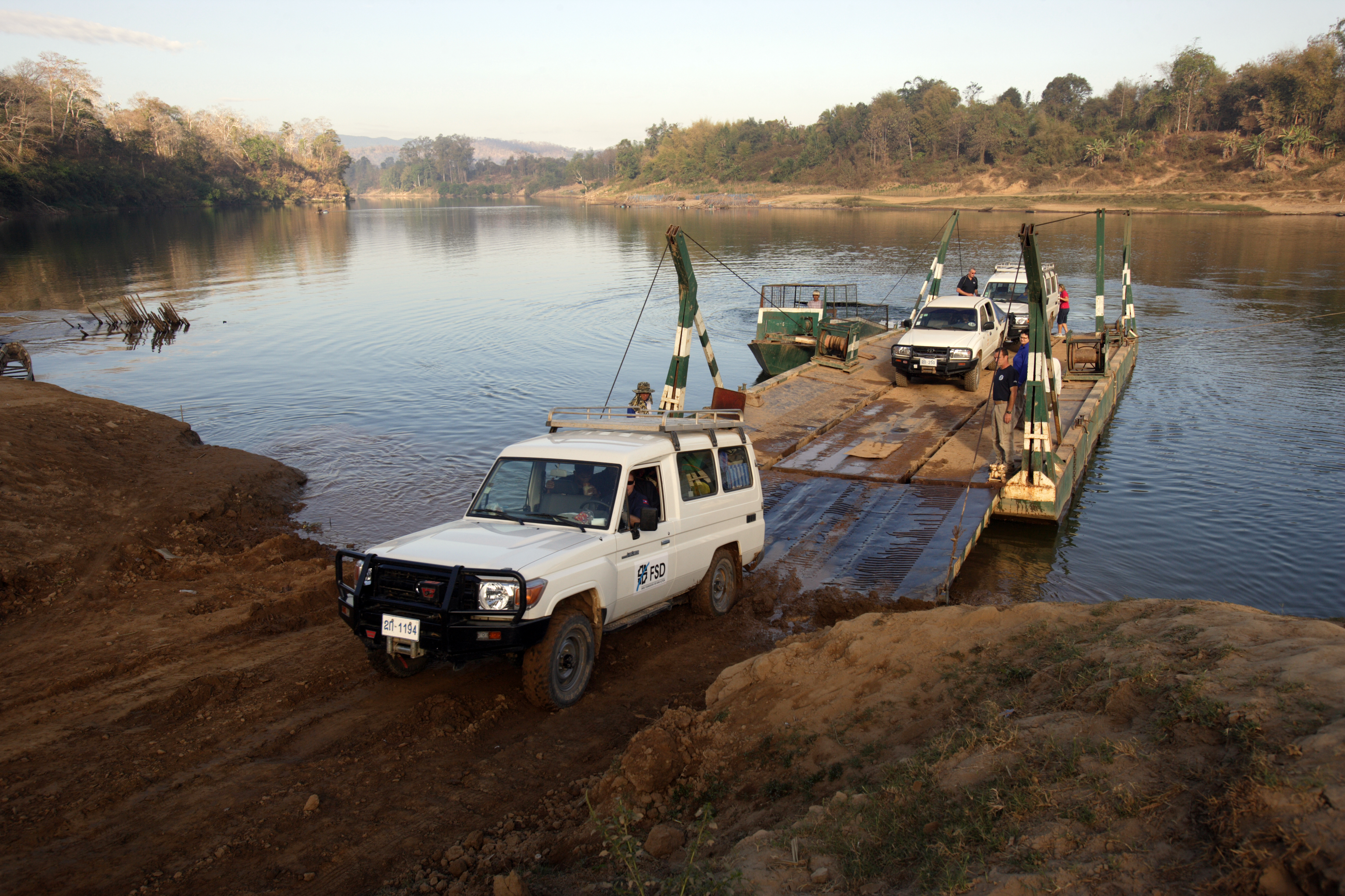 Care, FSD, vehicles cross the Sekong River on a small ferry on a visit to remote project sites east of Sekong, Lao PDR, 2009. \